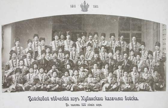 A photo taken at 26th of September 1911 in Yekaterinodar (now Krasnodar) at the 100th anniversary of the establishment of the Kuban Cossack Choir. Quote from the choir's anniversary page: «При внимательном изучении юбилейного снимка, сделанного в городе Екатеринодаре 26 сентября 1911 года, удалось установить, что во втором ряду, справа четвертый, сидит [Иван Ефимович] Гладкий.»